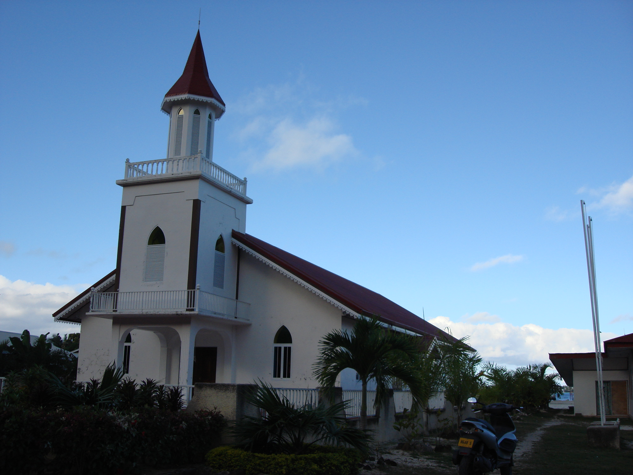 Maohi Protestant Church in Anau, Bora Bora